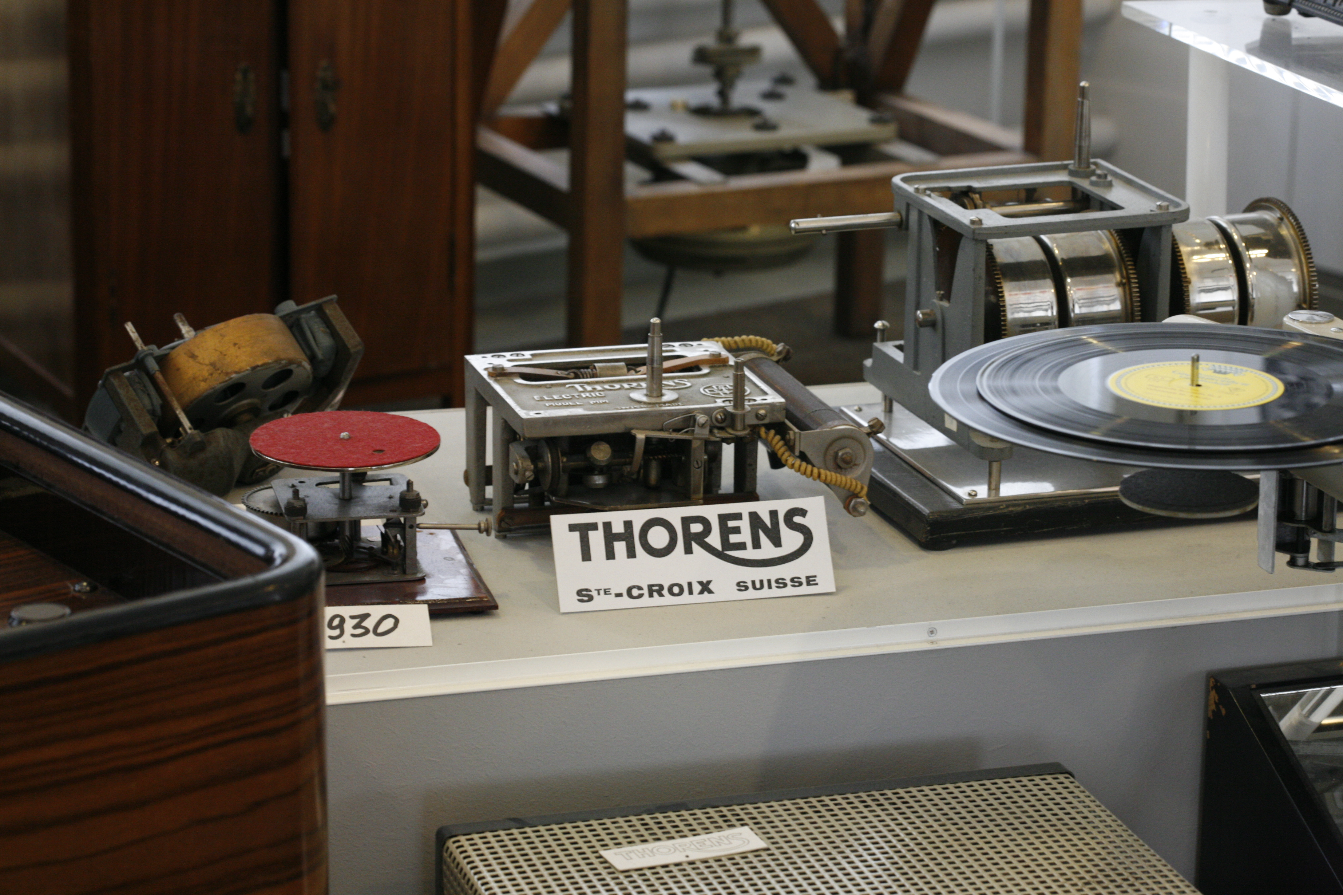 CIMA museum (Centre International de la Mécanique d'Art)